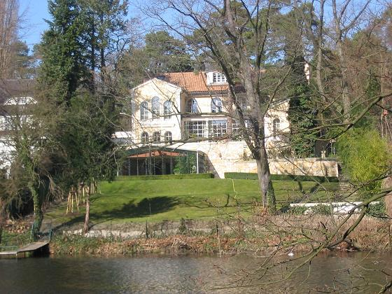 The Hubertussee ("Hubertus lake") in Berlin; villa at the north bank